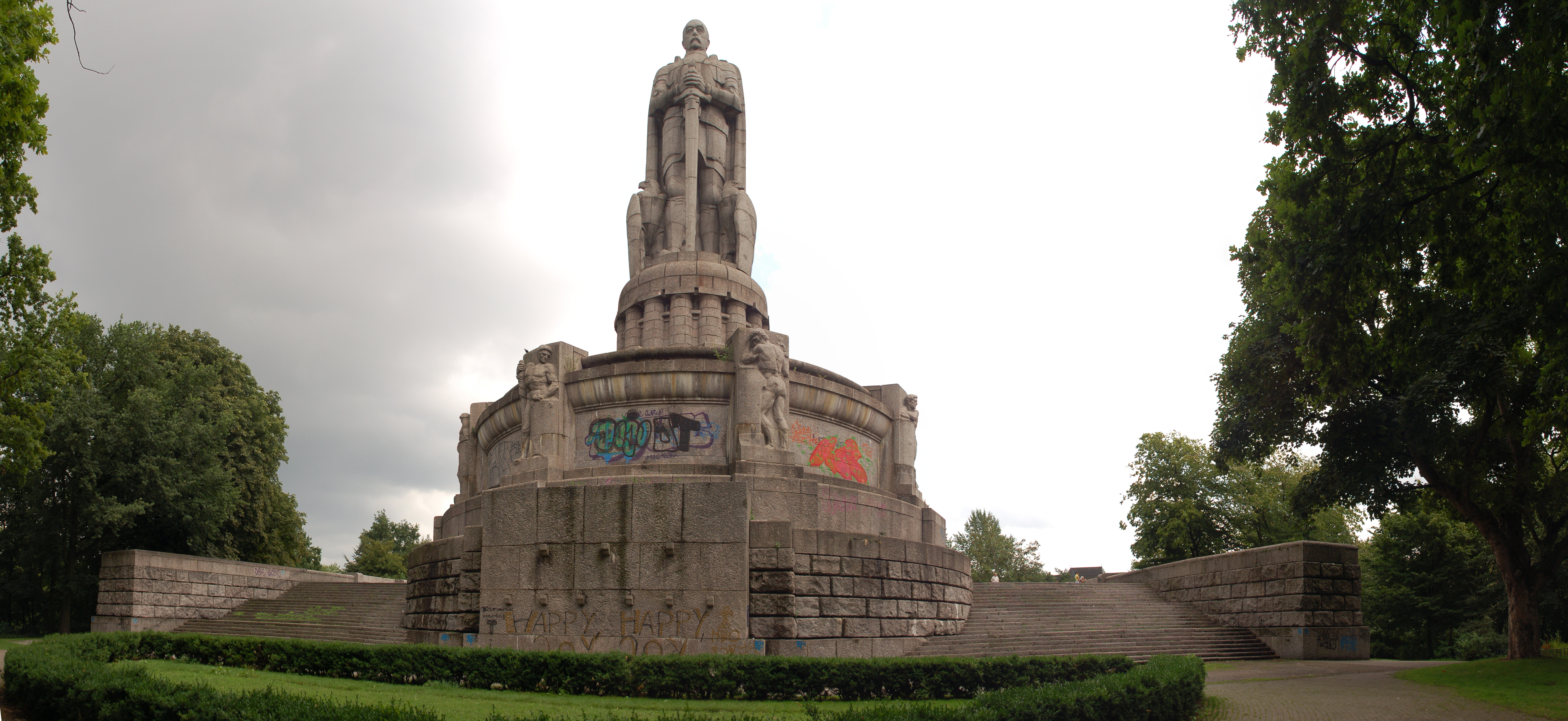 Panorama view of the Bismarck Monument in Hamburg, Germany